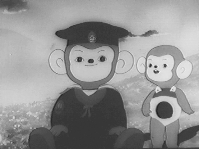 Screenshot from “Momotarō: Umi no Shinpei”.